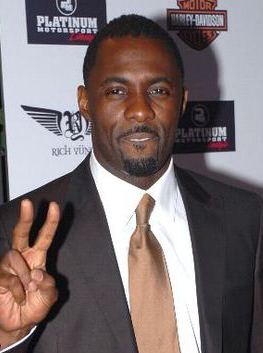 Cropped image of Idris Elba at a 2007 American Music Awards after-party